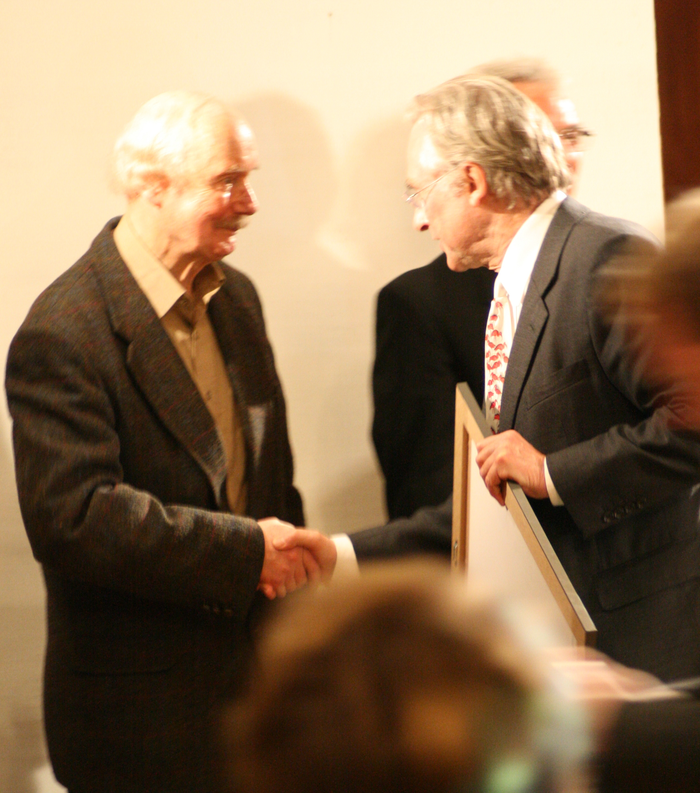 Karlheinz Deschner (left) and Richard Dawkins (right)